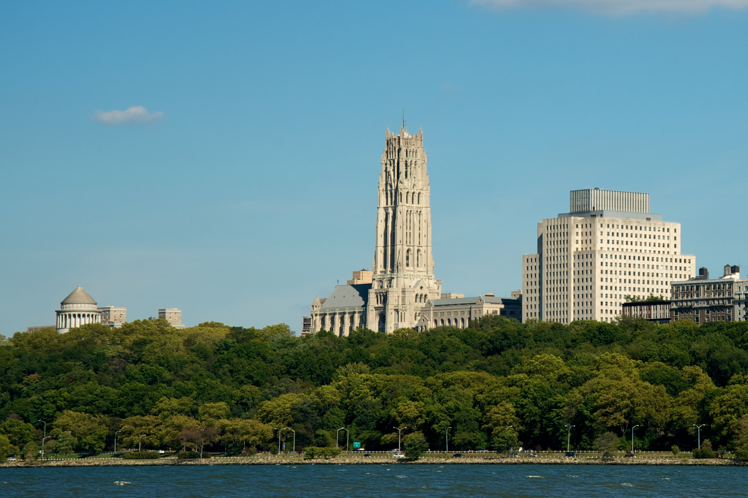 General Grant National Memorial, The Riverside Church, and The Interchurch Center